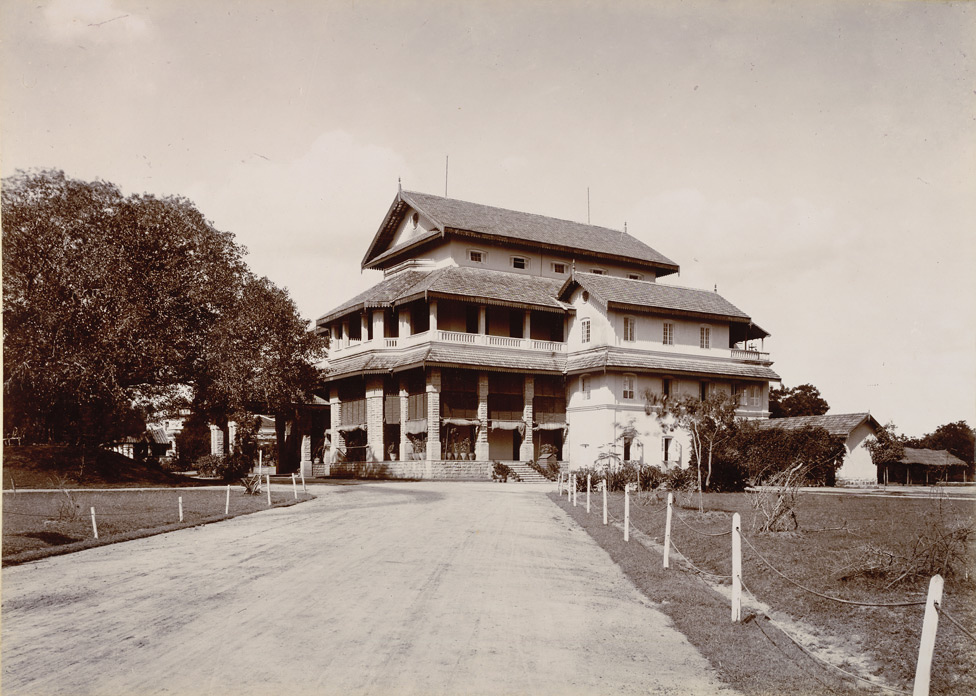 Photograph of the Secunderabad Club, from the Macnabb Collection (Col James Henry Erskine Reid): Album of Indian views, taken in c.1902-03. The cantonment at Secunderabad was laid out in 1806 for the British Subsidiary Force and the Secunderabad Club became a local landmark here. The Club was established on April 26, 1878 and was originally known as the Secunderabad Public Rooms. It was renamed the Secunderabad Garrison Club, the Secunderabad Gymkhana Club and the United Services Club. It became the Secunderabad Club in March 1903. The Salar Jungs initially used it as a rest house, whenever they came to the cantonment to meet the visiting Viceroy and the British Resident.